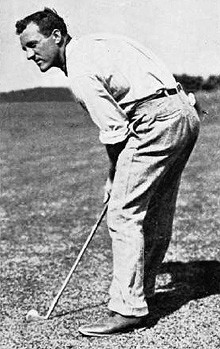 Golfer Jack Hobens (1880-1944) prepares to hit a chip shot at Englewood Country Club